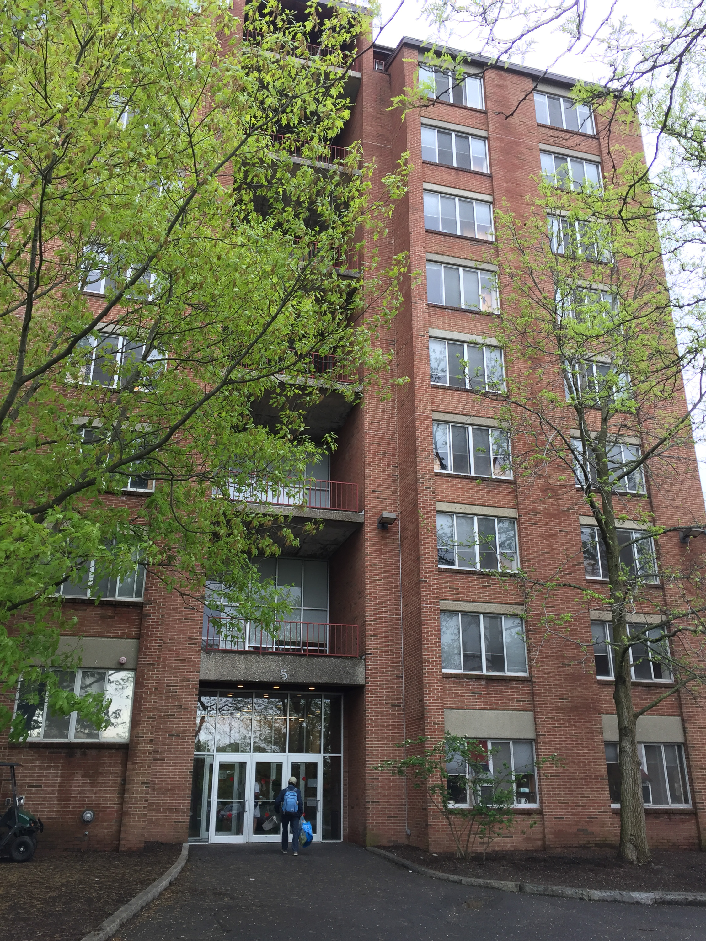 High Rise Five, Cornell University dorm on North Campus